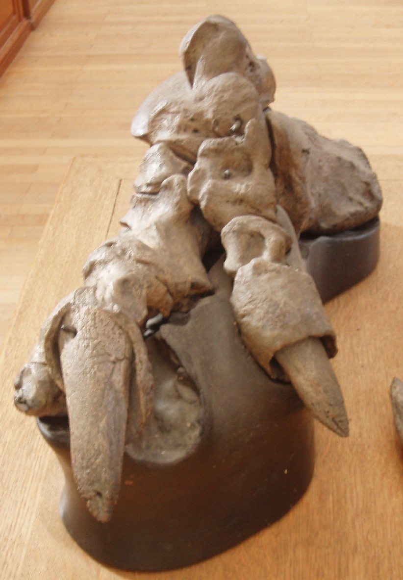 Right foot of Lestodon armatus